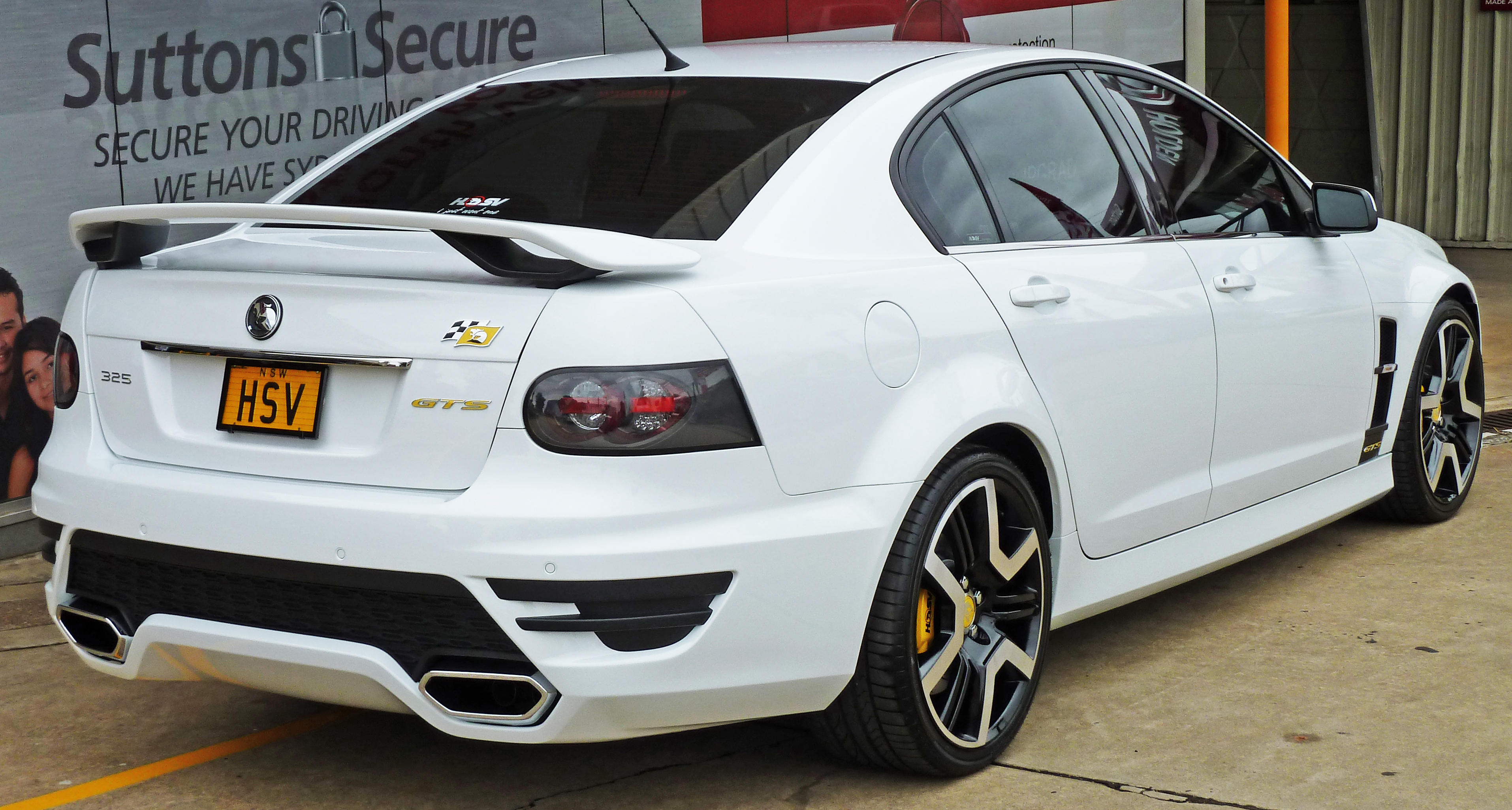 2010 HSV GTS (E Series 3 MY11) sedan. Photographed at Suttons Holden, Chullora, New South Wales, Australia.